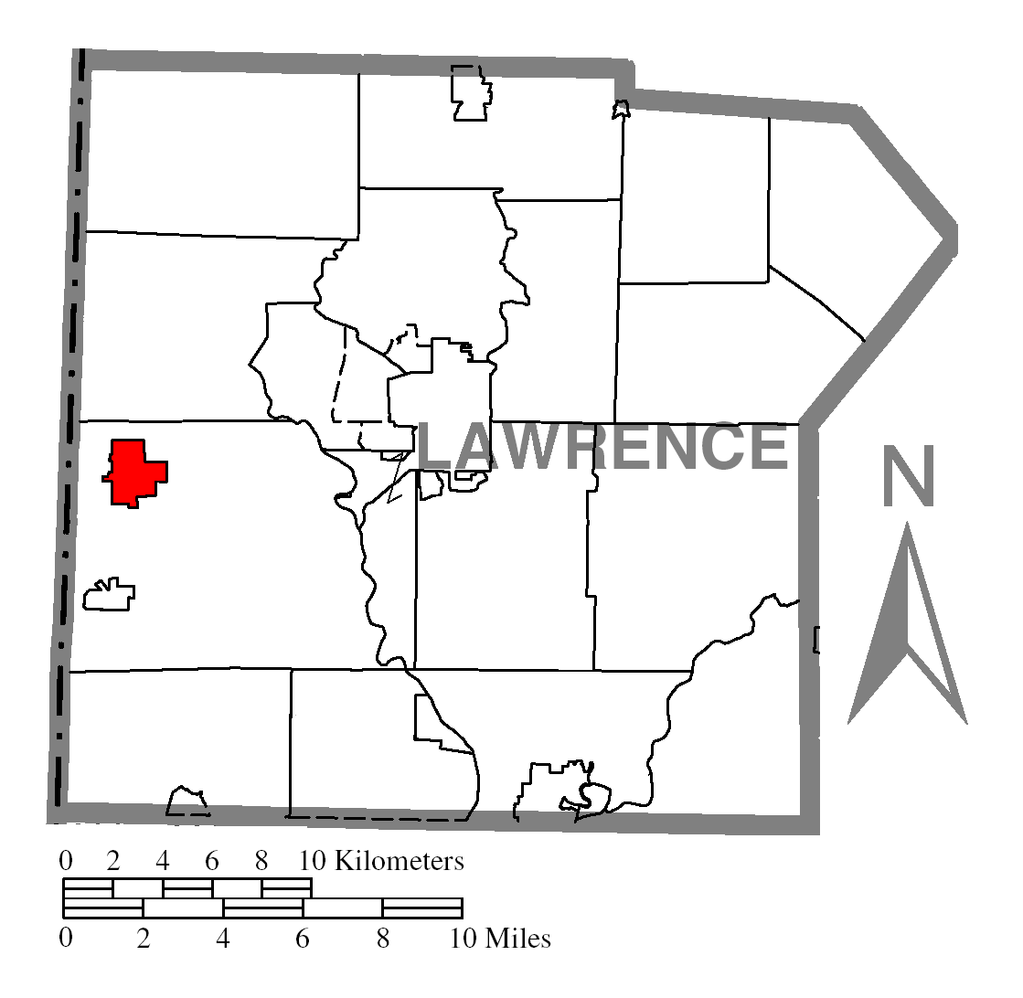 Map of Lawrence County higlighting Bessemer.